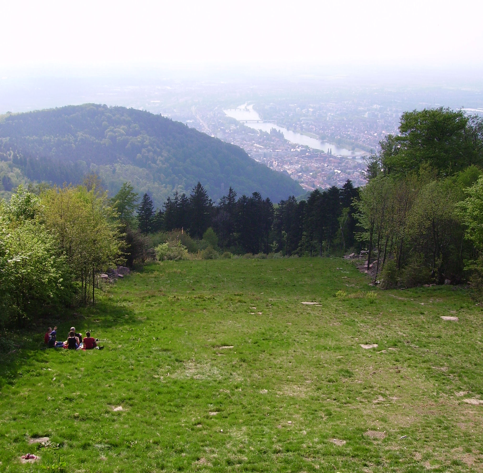 On top of Königstuhl (mountain) in Heidelberg, Germany